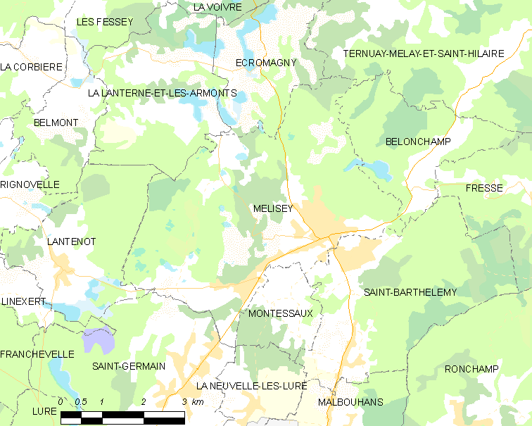 Map of French municipality